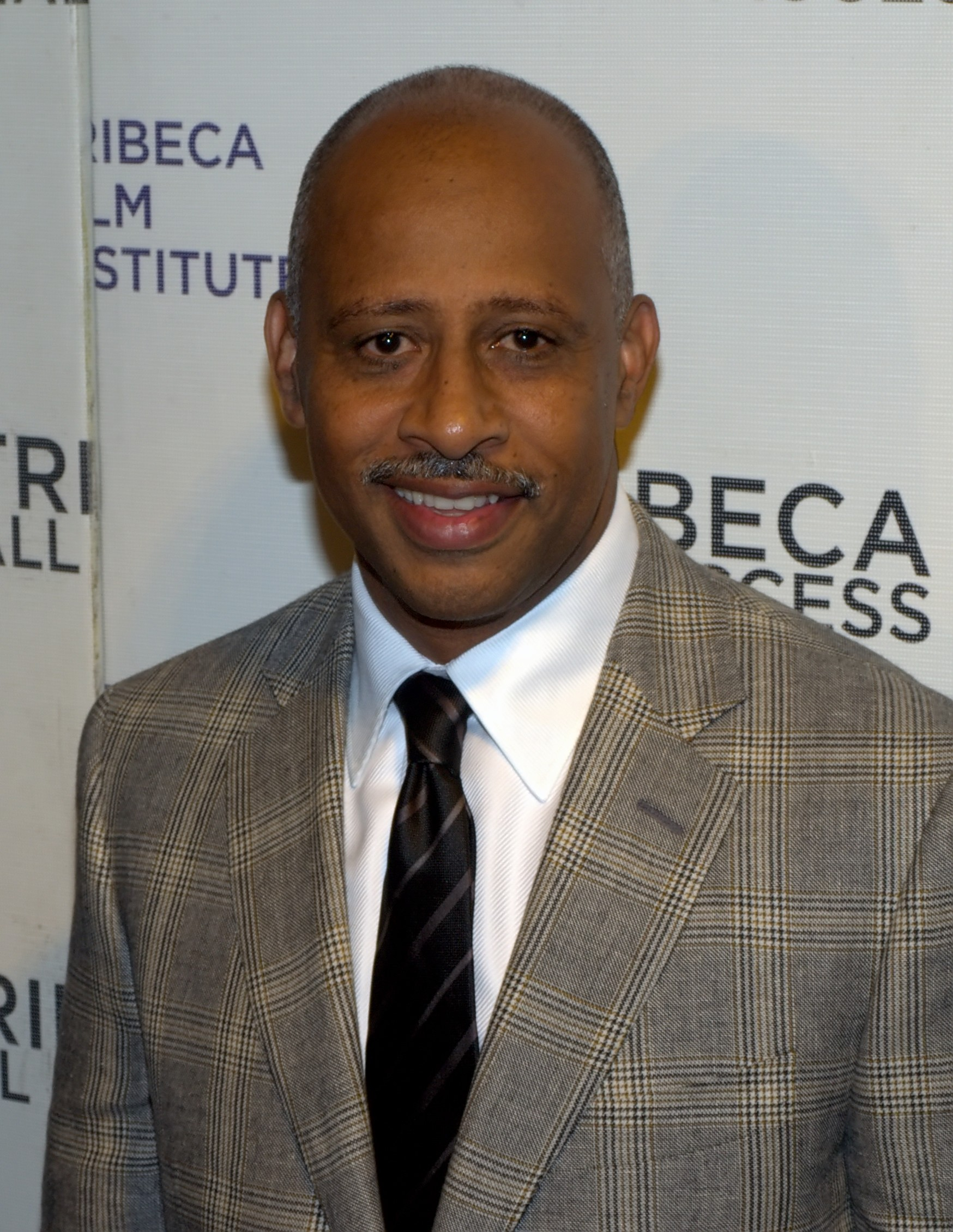 Ruben Santiago Hudson at the 2010 Tribeca Film Festival.